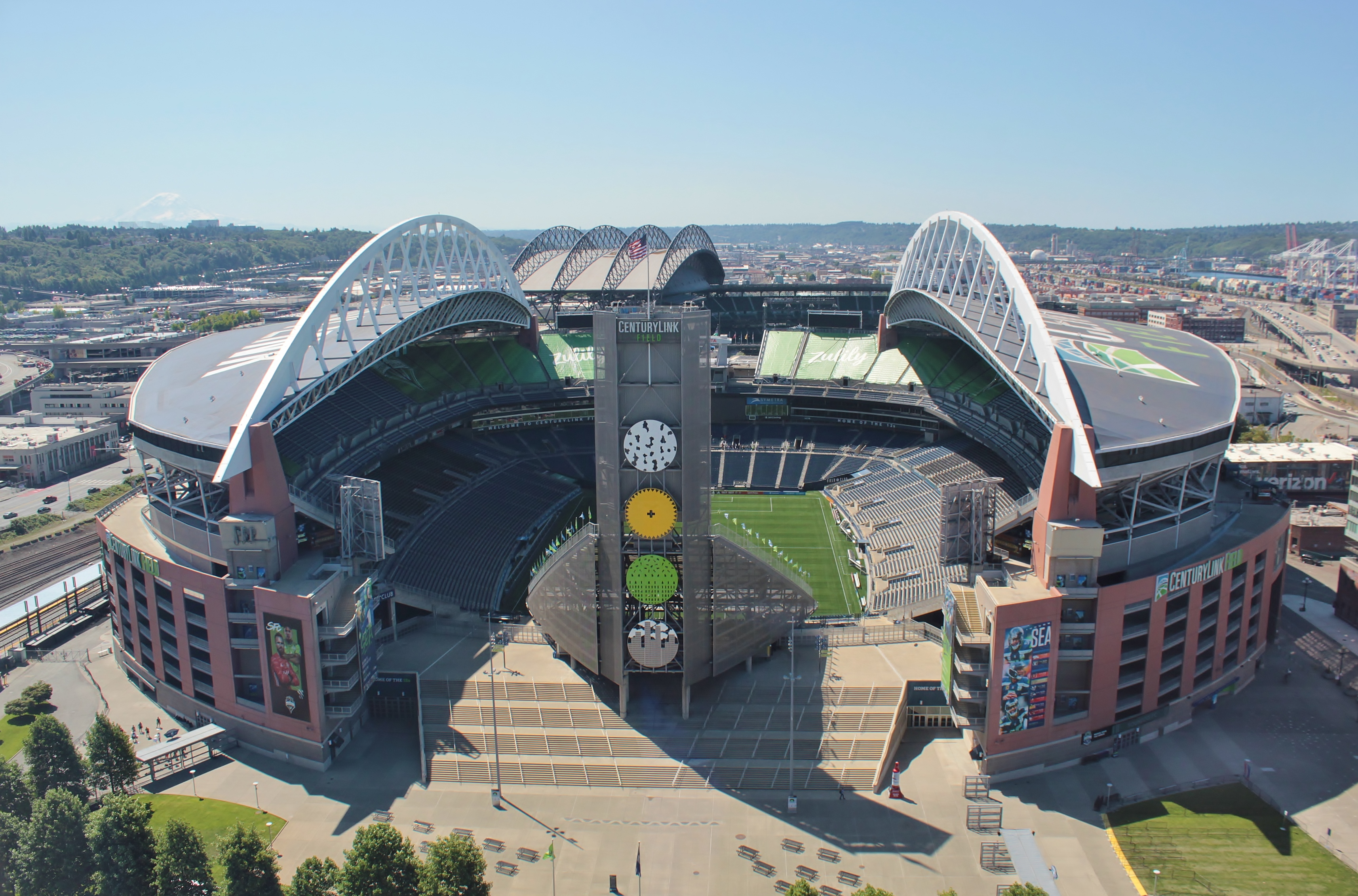 CenturyLink Field with tarped sections for Seattle Sounders FC matches, as seen from the rooftop deck of The Wave at Stadium Place.